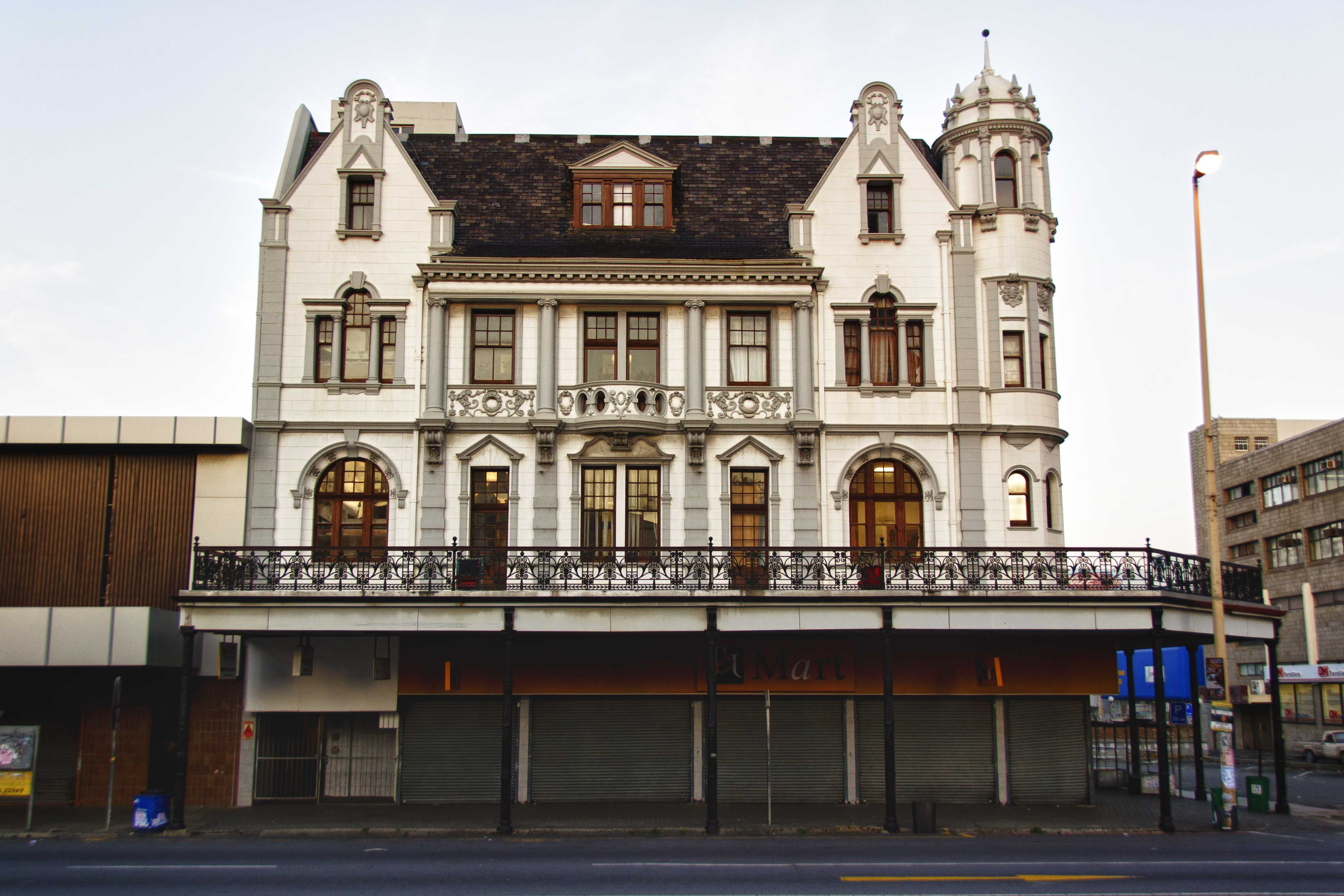 This imposing treble-storeyed building, with its Flemish Renaissance gables, was designed by the architects Parker and Forsyth of Cape Town and erected in 1901 under the supervision of J Pender West, of the same firm, for W M Cuthbert. Oxford Street, East London, South Africa This media shows a South African Protected Site with SAHRA file reference 9/2/026/0013.